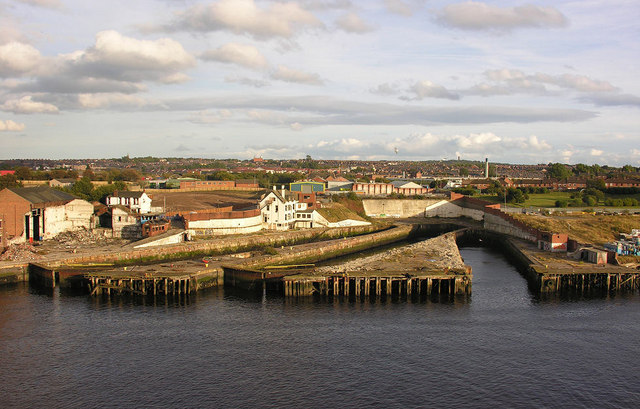 Former drydocks, South Shields Abandoned drydocks litter the banks of the Tyne, this group at South Shields were once part of the Middle Docks or Tyne Engineering complex.